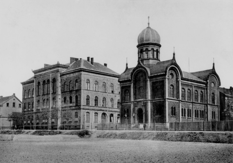 former Synagogue in Witten